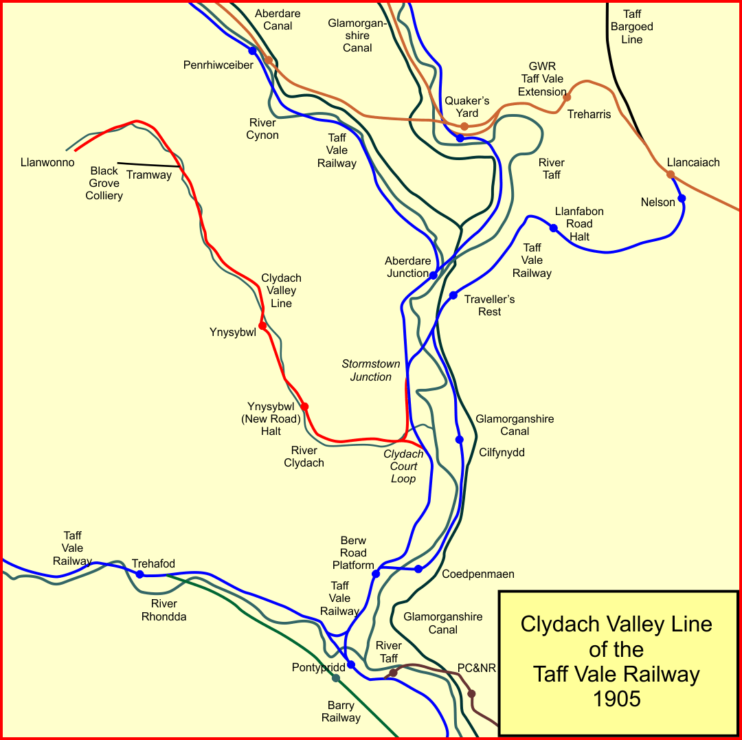 System map of the Ynysybwl branch line of the Taff Vale Railway in 1905